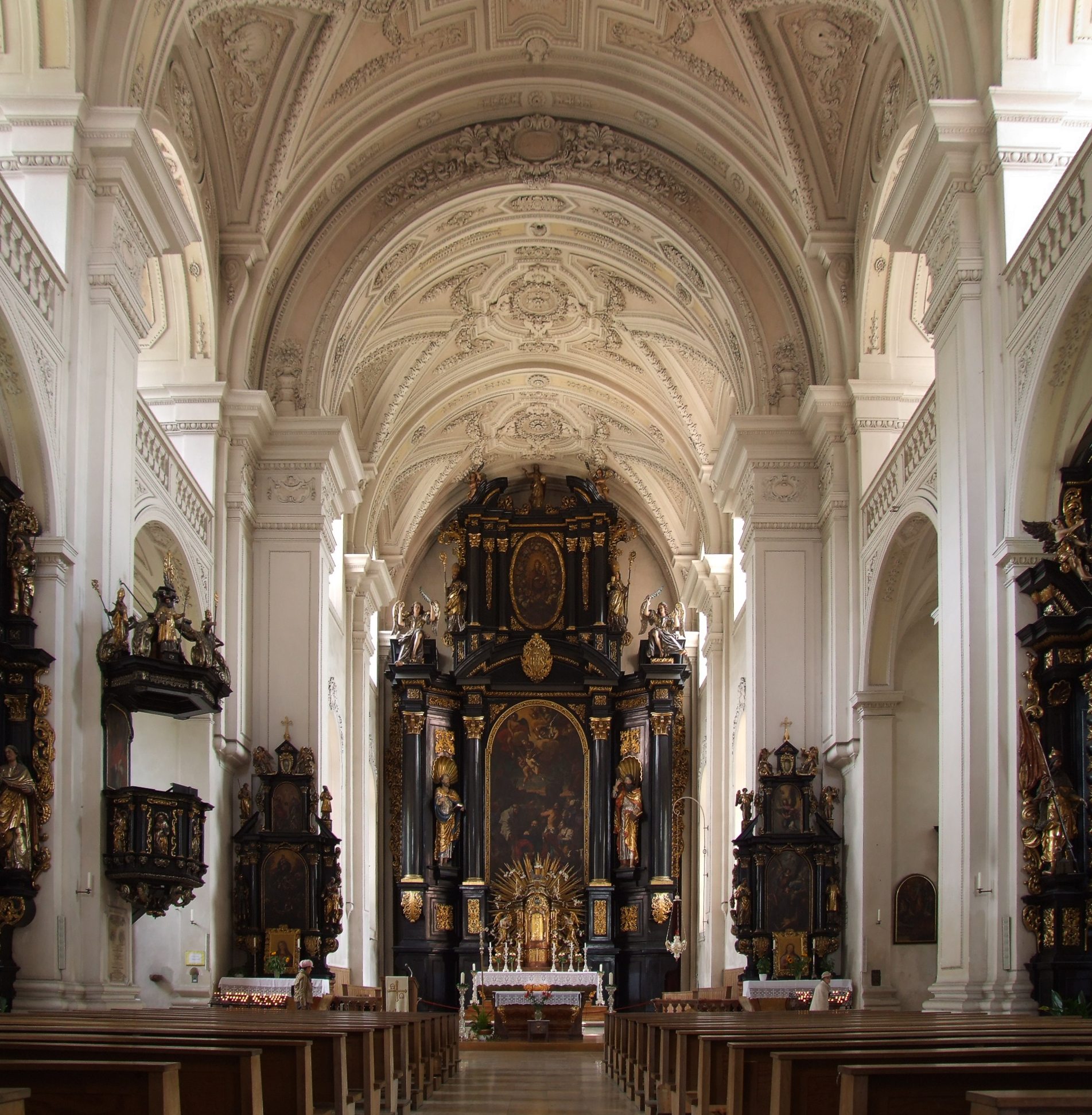 St. Paul Church in Passau